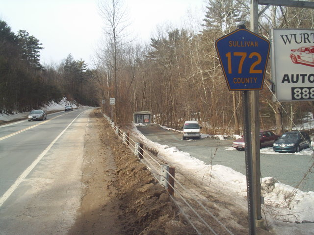 Sullivan County Route 172 crossing through Wurtsboro, New York near a local auto body.